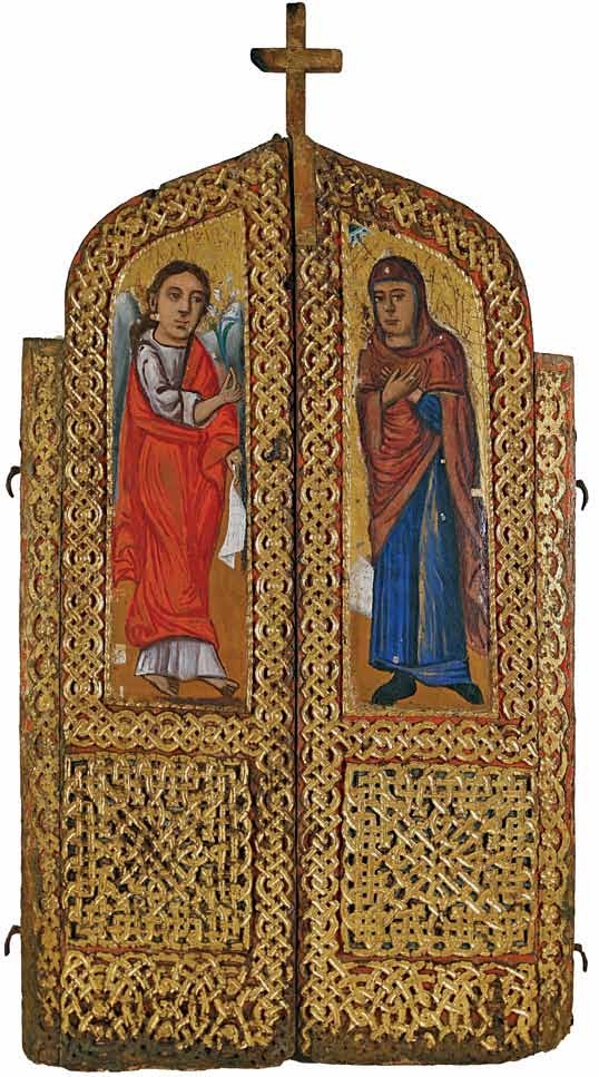 Royal Doors from Saint Nicholas and Saint George Church in Orah, 16th Century